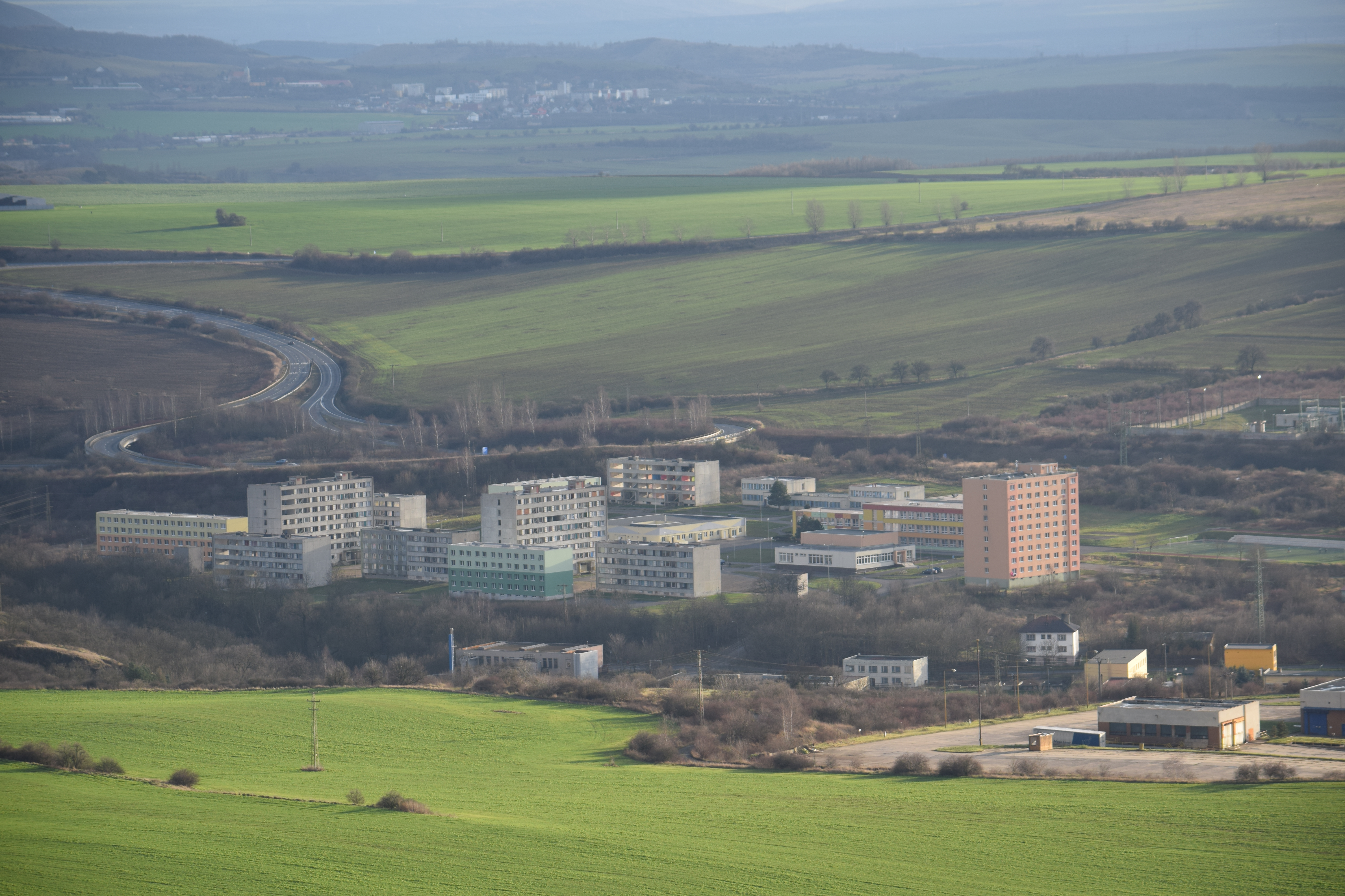 View of the neighborhood Chanov from hill Spicak